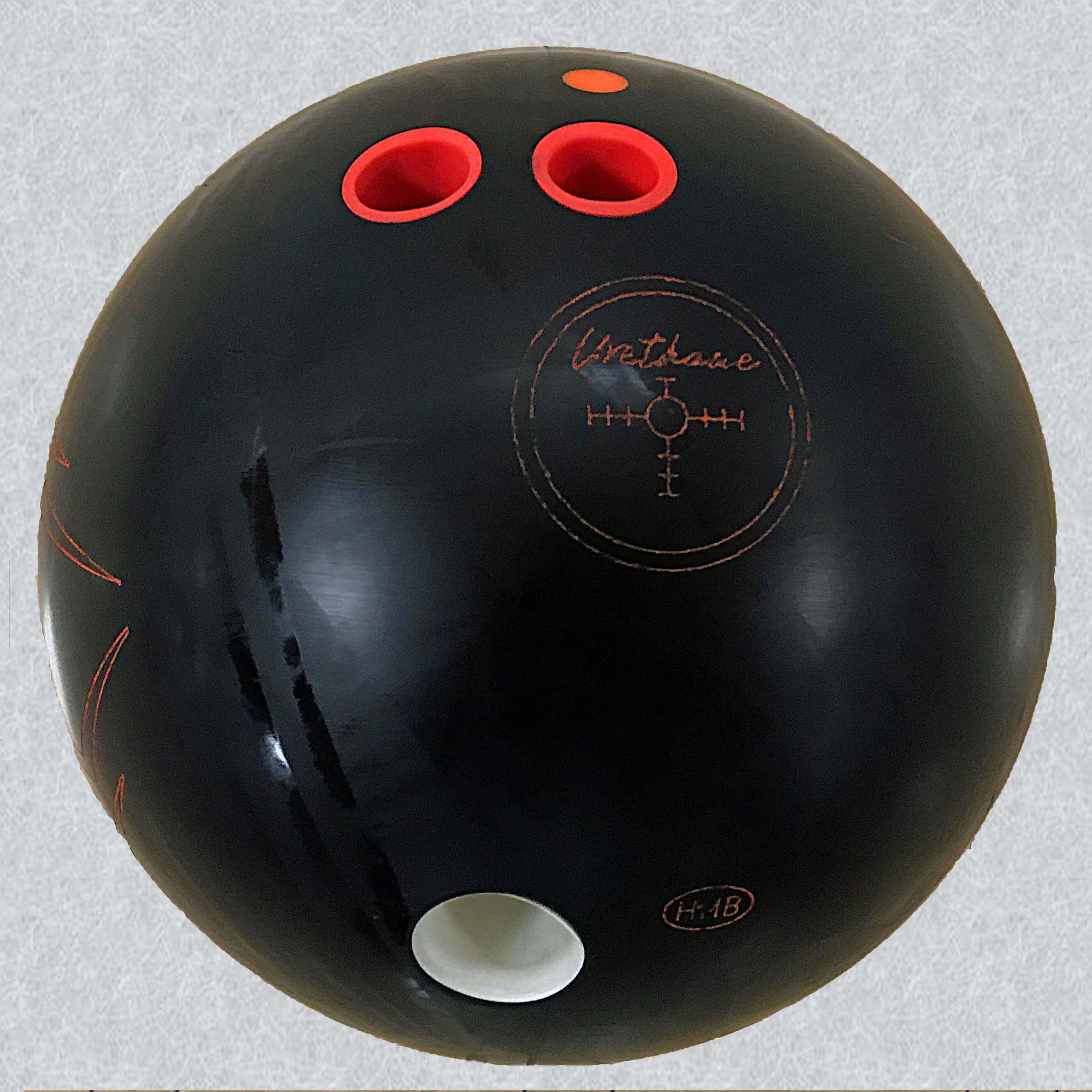 A custom-drilled polyurethane (“urethane”) ball, having custom finger inserts in a ‘’fingertip grip’’ (fingers insert only to first knuckle). Ball has a ‘’pin up’’ layout, with the mass bias indicator also visible. Balls with urethane coverstocks are thought to be more controllable than reactive resin balls.